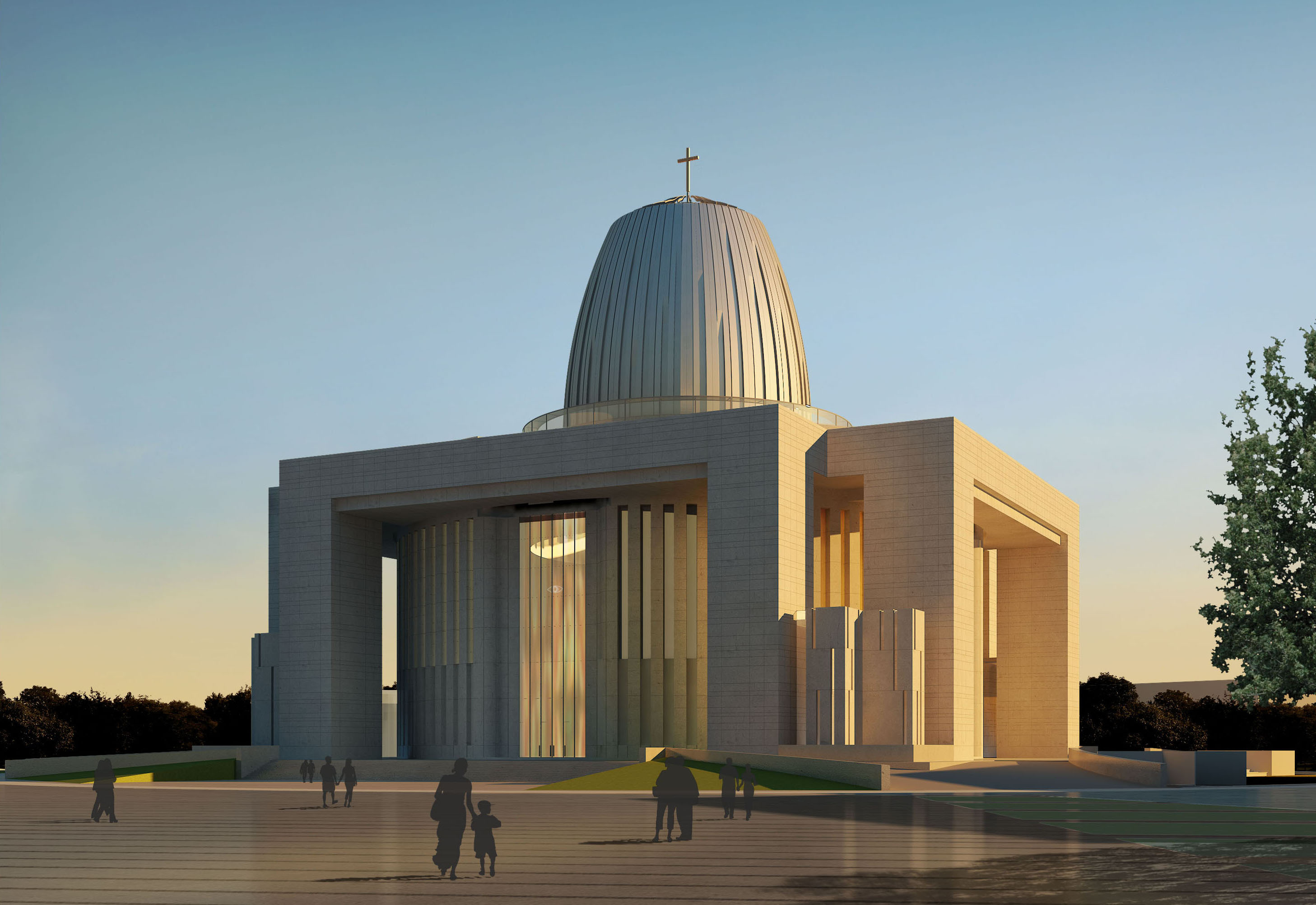 Visualization of S.D. Temple of Divine Providence in Warsaw.